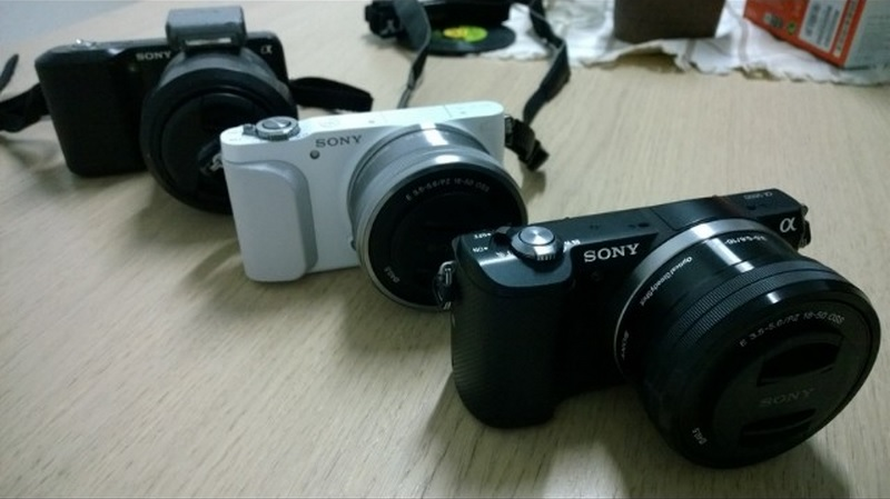 Sony Alpha 5000 + NEX-3N + NEX-3.